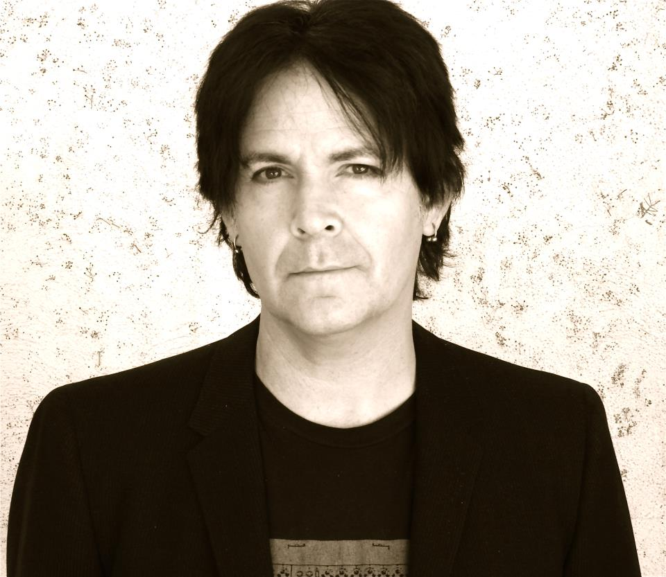 Marc jacket